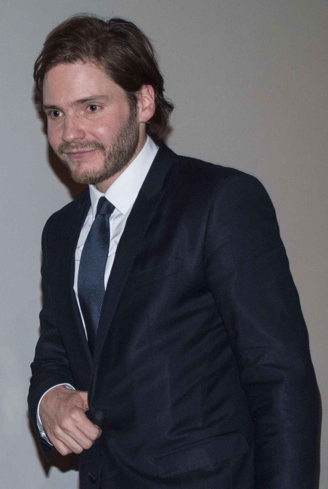 Photograph of Daniel Brühl at the premiere of Rush in Vienna, Austria. 30.09.2013